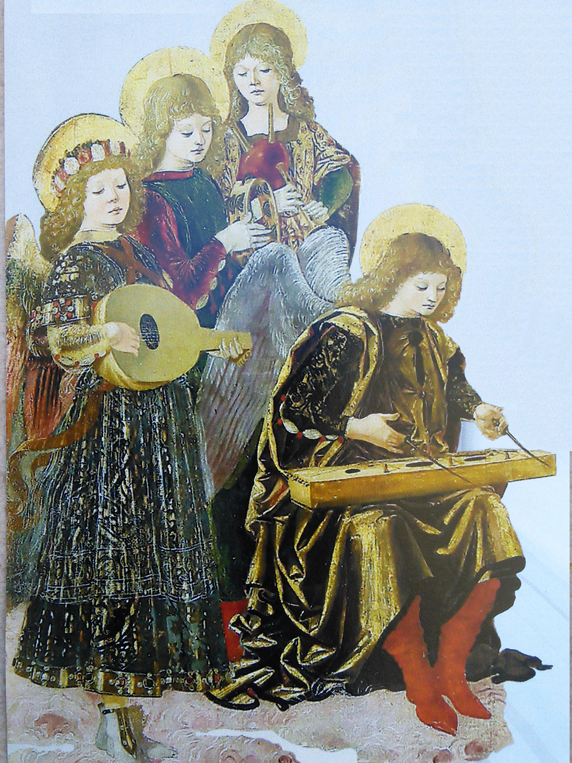 Hammered dulcimer accompanied by lute,tambourine and bagpipe.